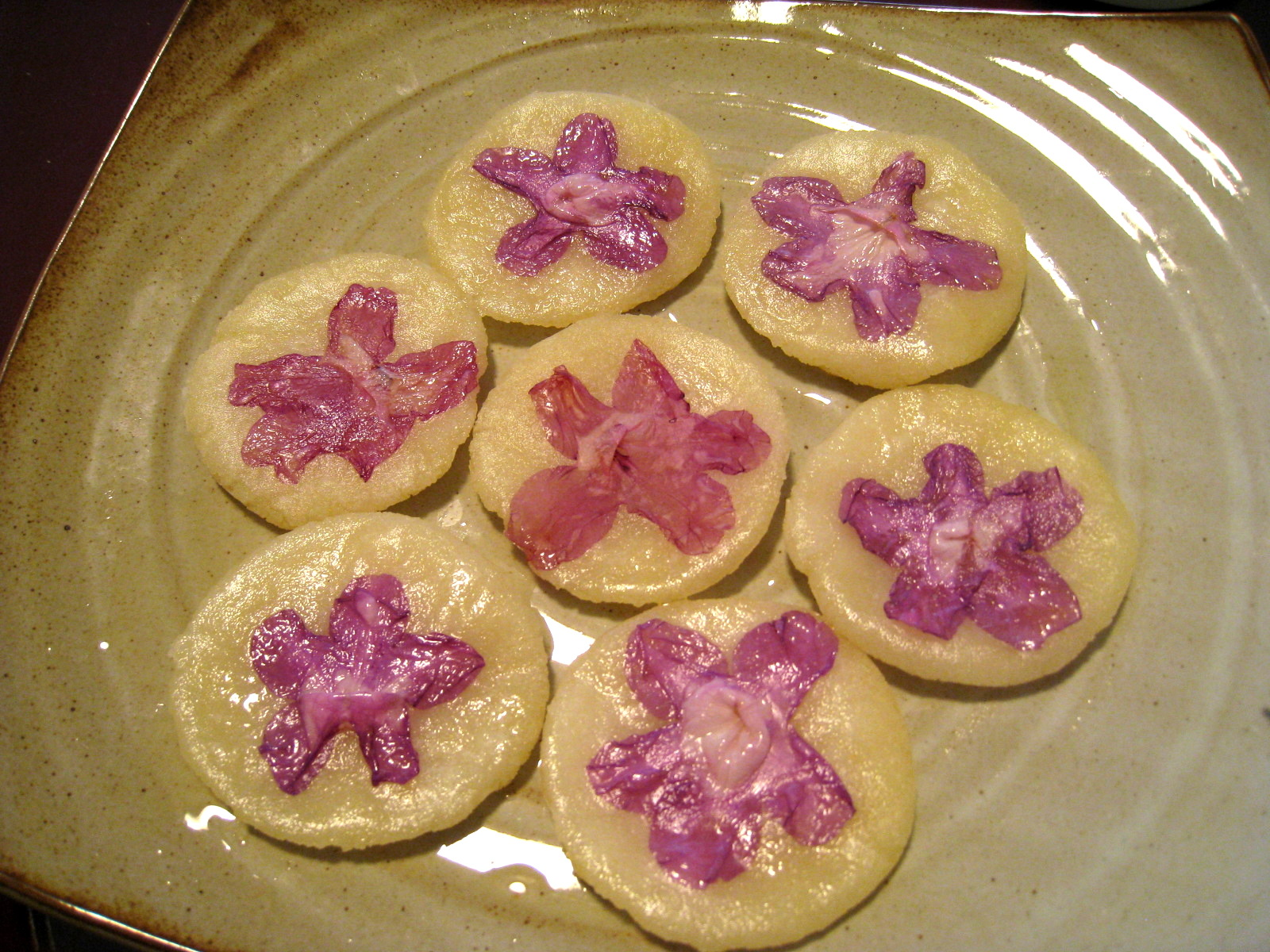 Jindallae hwajeon (진달래 화전, literally azalea pancake) is a variety of jeon, Korean styled pancakes, made with Rhododendron mucronulatum, glutinous rice flour, and sugar. It is made by pan-frying the kneaded dough on a hot frying pan with vegetable oil. It was traditionally eaten on Samjinnal, which falls on every March 3 in the lunar calendar.